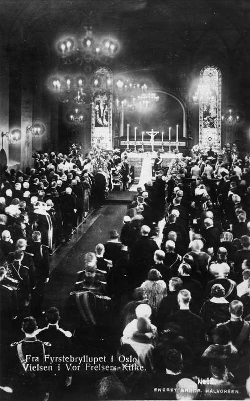 The wedding betw. Olav V of Norway and princess Märtha of Sweden in 1929